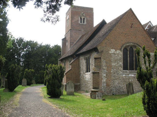 St John's, Old Malden. The part of the church nearest the camera in this view is the mediaeval lady chapel, with the 17th century nave and tower beyond. The building is Grade II listed. The other view of the exterior 33630 shows the 19th century north aisle by T.G. Jackson and the 21st century extension. The medieval church was built by Walter de Merton, founder of Merton College, Oxford who are still patrons of the living and own adjacent properties.